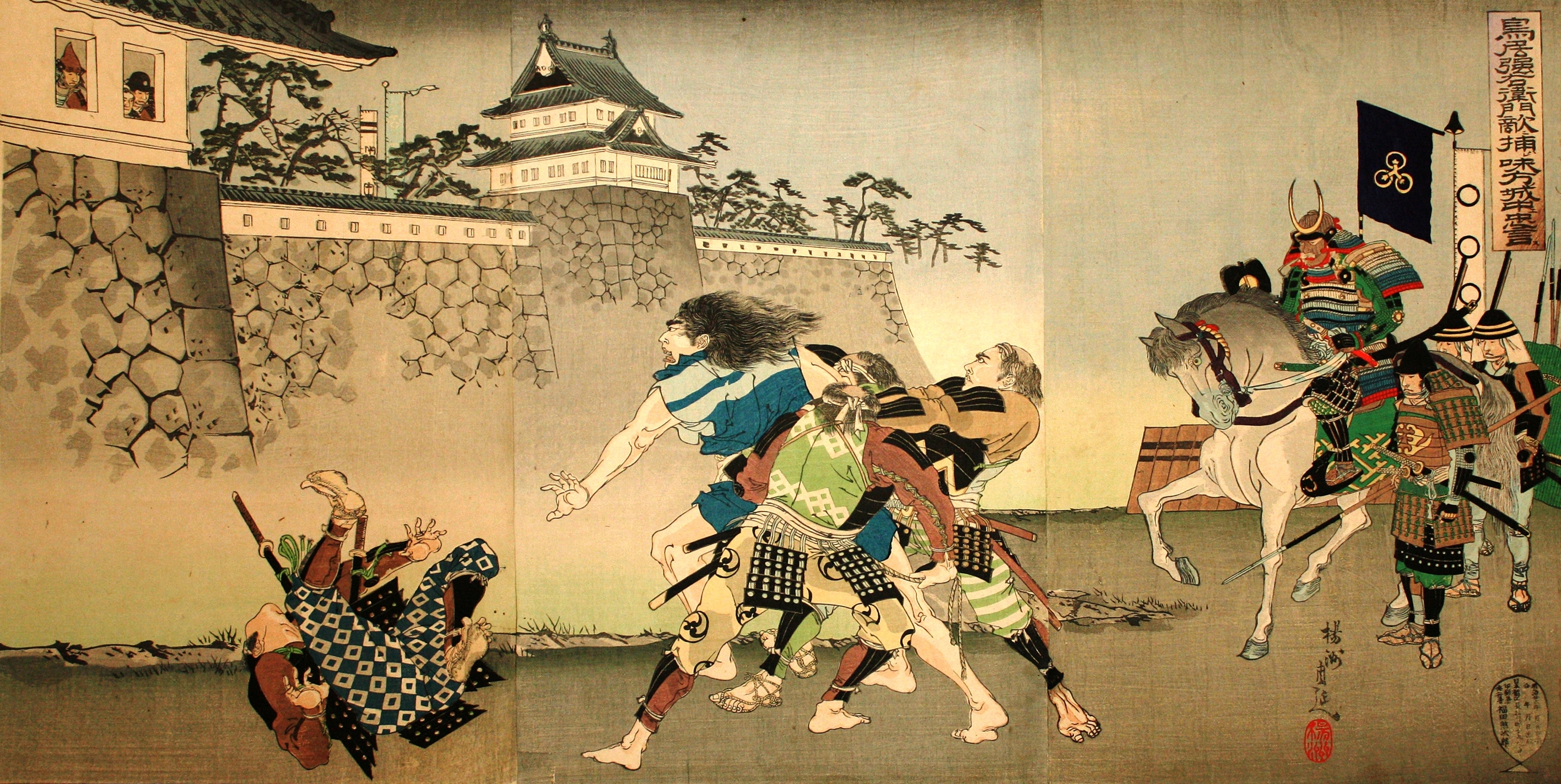 An ukiyo-e of Torii Suneemon's loyalty.